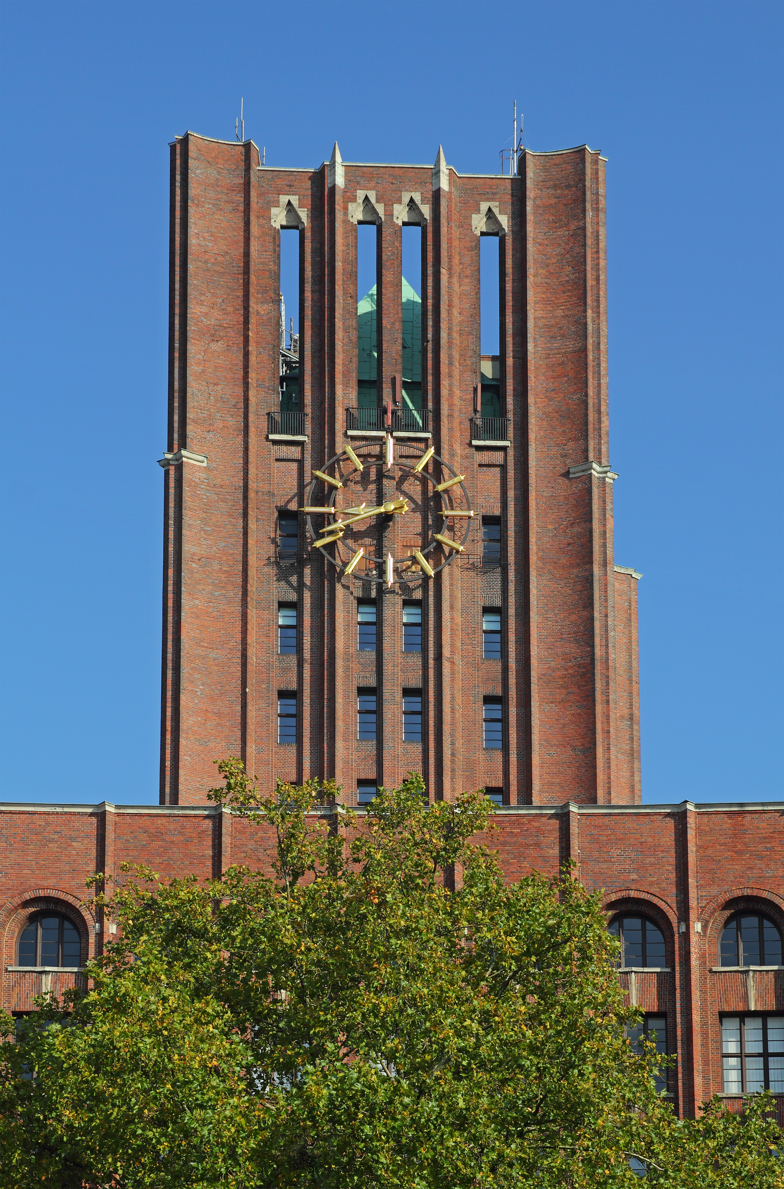 Berlin-Tempelhof. Clock tower of the Ullstein House.